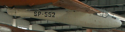 Polish glider IS-1 Sęp bis (reg. SP-552), Polish Aviation Museum in Kraków.